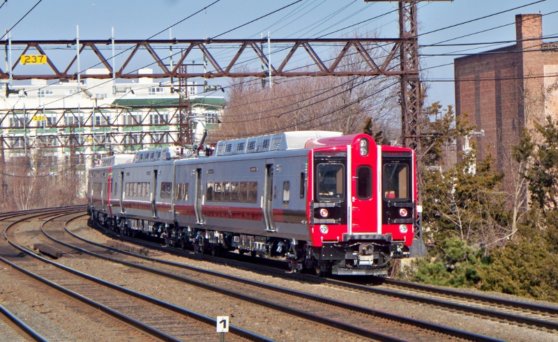 Metro-North M-8 test train at Port Chester, New York.